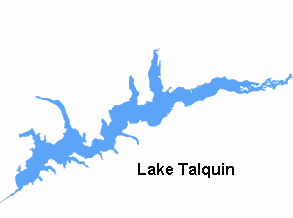 Map of Lake Talquin